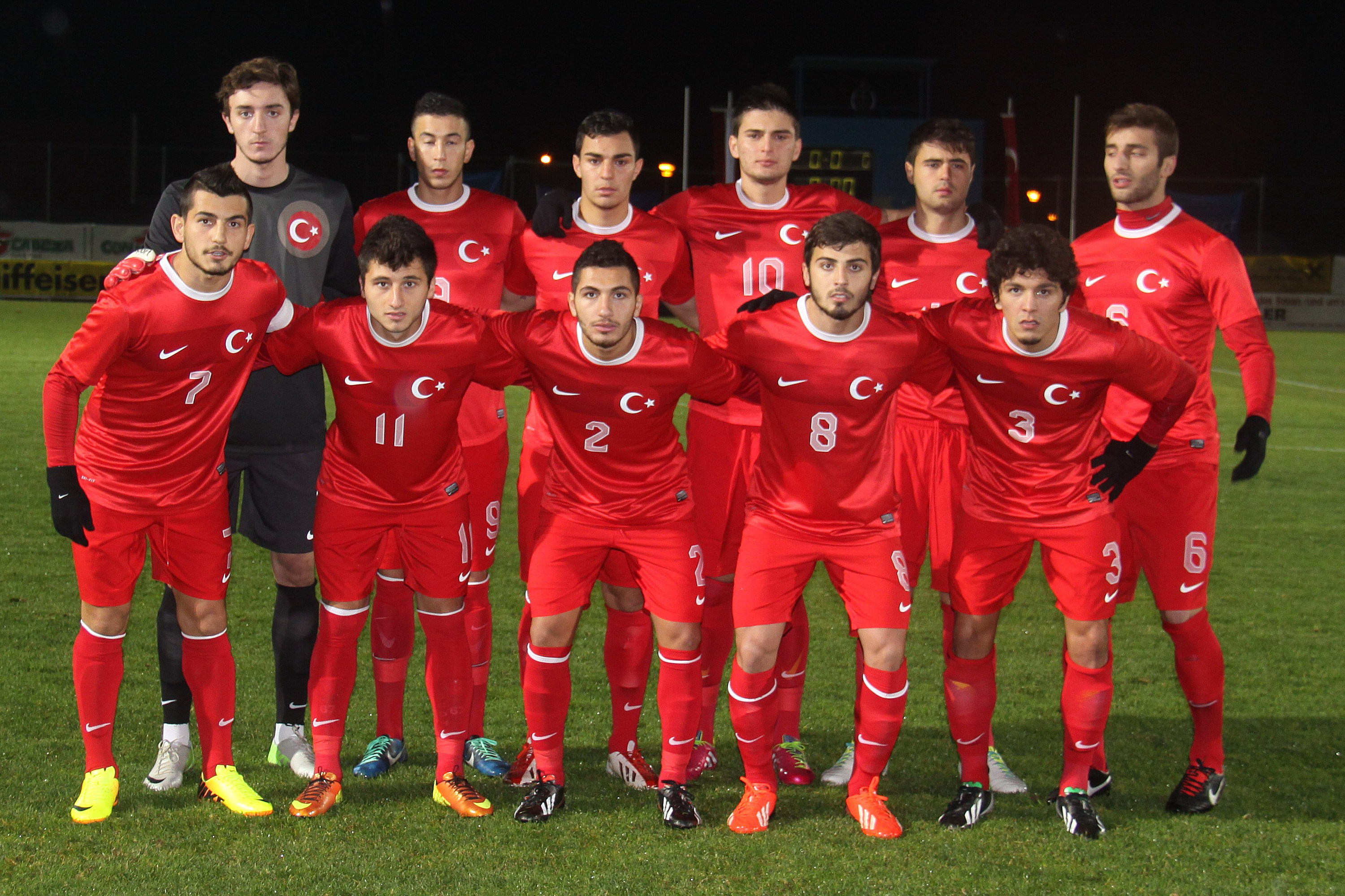 Friendly-match Austria U-21 vs. Turkey U-21 (2:0) on 2013-11-14 in Wiener Neudorf. – The photo shows the team of Turkey.